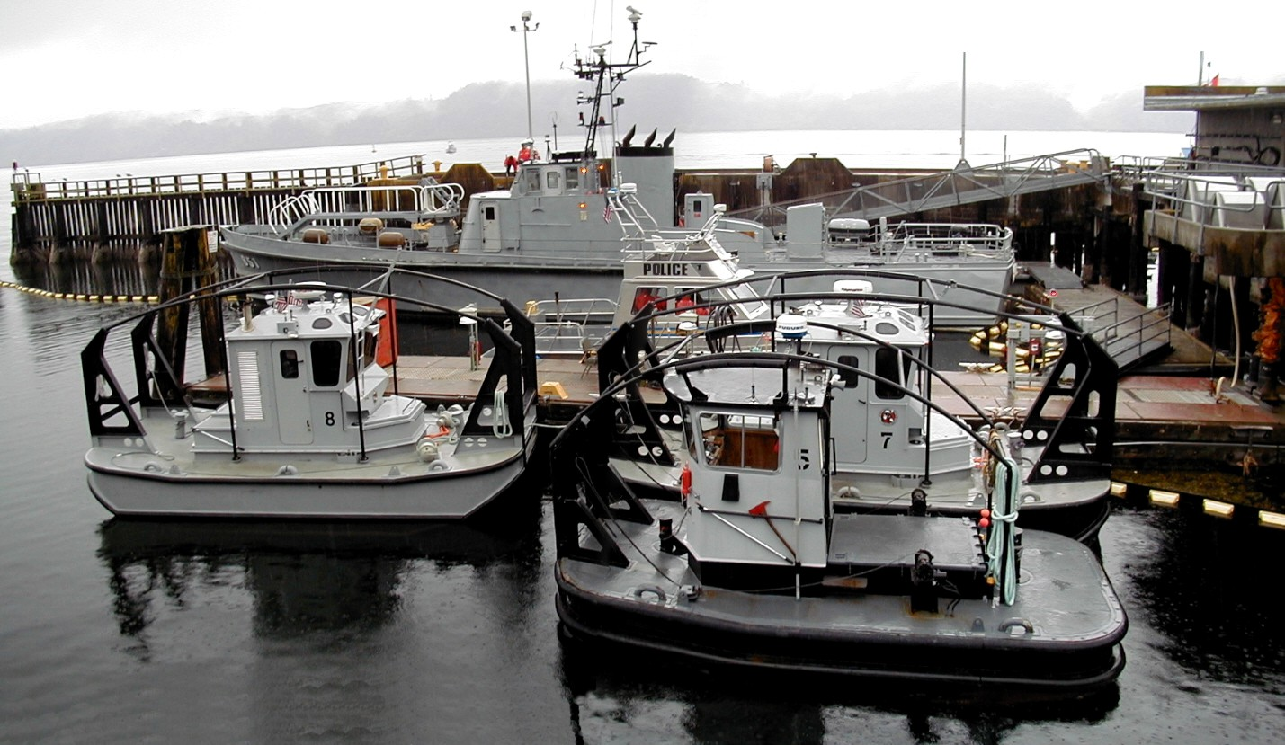 Bangor Submarine Base, Wash. (May 26, 2004) – The old Log Bronc Five tractor tug has seen years of service at the Puget Sound Naval Shipyard, but has recently been refitted, and is now employed at the Bangor Submarine Base. Her new sister tugs are the Log Bronc Seven and Eight tractor tugs. Here all the tugs are seen at the service pier fueling dock. One improvement to the Log Bronc Five is the push-knees on each end of the new tugs. U.S. Navy photo by Ray F. Longaker, Jr. (RELEASED)